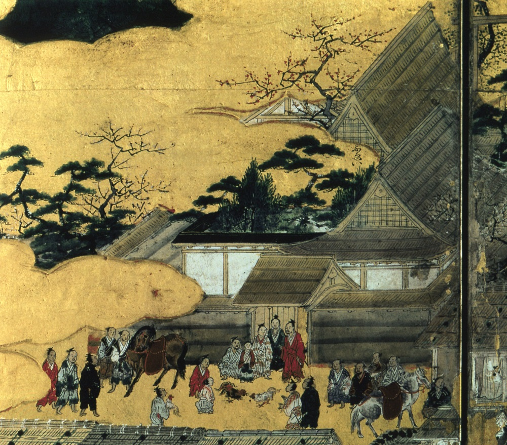 Kanō Eitoku: Rakuchū rakugai-zu, c. 1570, ink,color and gold on paper, 160x365 cm. Uesugi Meseum, Yonezaka.